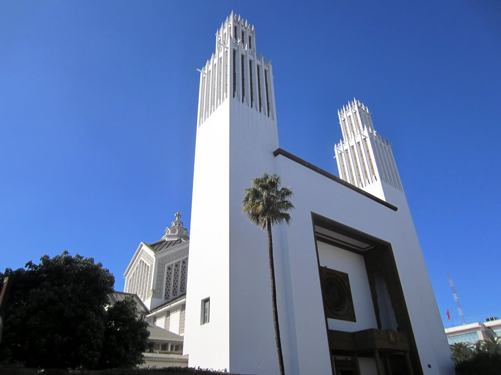 St Pierre Cathedral in Rabat, Morocco, is a vestige of French colonial rule which ended in 1956.